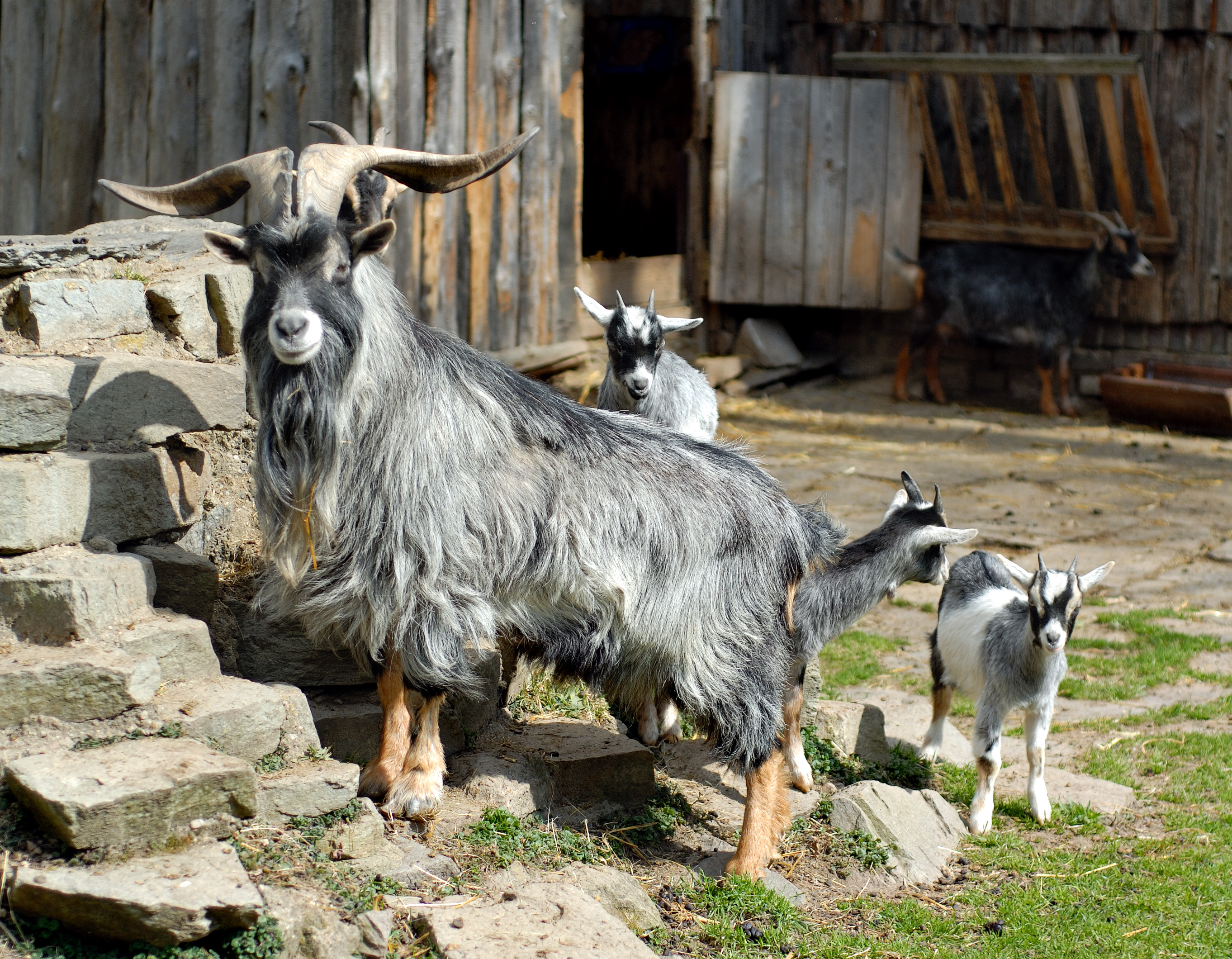 This image shows a few Pygmy goats (Capra hircus hircus).